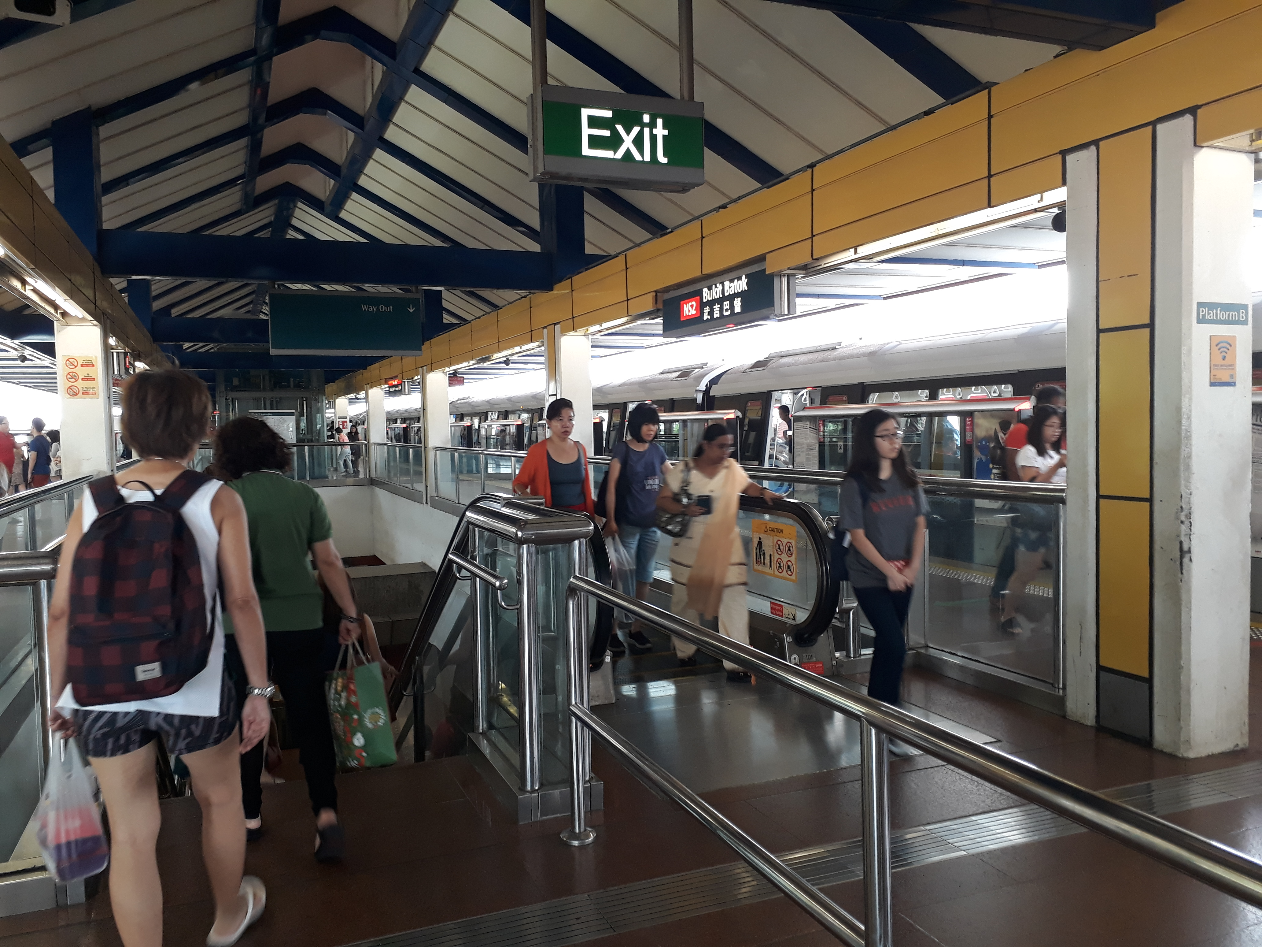 Bukit Batok